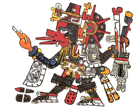 Quetzalcoatl, using the attributes of Ehecatl the wind god, thus representing the winds that bring the rain. Also known as the feathered serpent. Image retouched and cleaned.